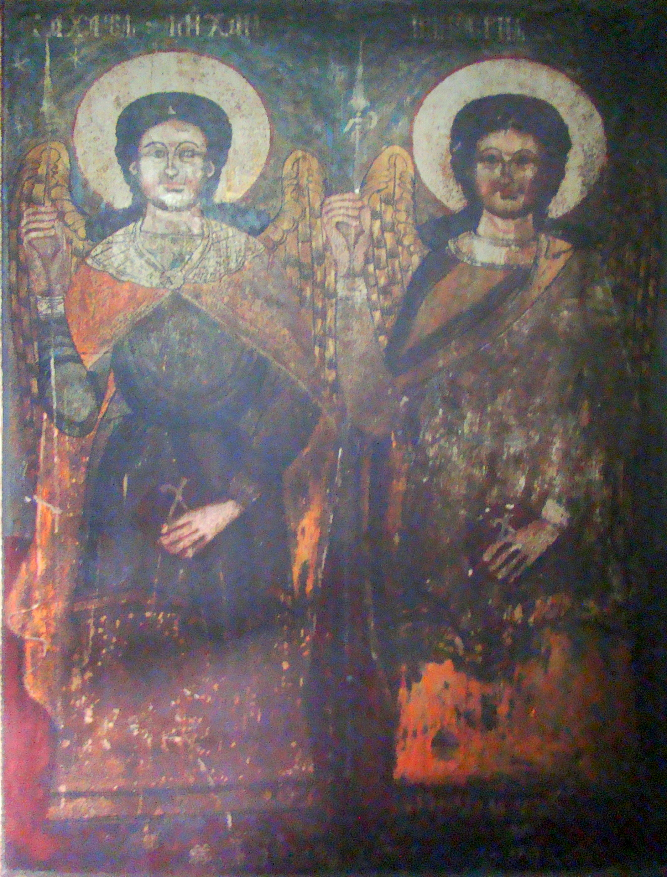 Wooden church in Petea, Mureş county, Romania